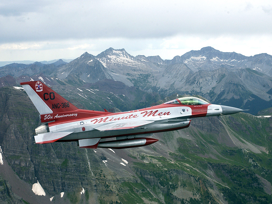 A U.S. Air Force General Dynamics F-16C Fighting Falcon aircraft painted in the colour scheme of the original Air National Guard flight demonstration team takes flight from the 140th Wing, Buckley Air Force Base, on 26 July 2006. This F-16 is flying in the skies above the southern Rocky Mountains. The 140th Wing of the Colorado Air National Guard had reached the 50th anniversary as the only flying acrobatic Air National Guard team, and to commemorate this event they had painted an F-16 aircraft in the same paint scheme as the original F-86s were 50 years ago.